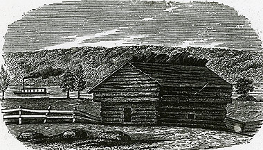 PHOTO CREDIT: CINCINNATI MUSEUM CENTER Army Ensign Francis Luce, who oversaw 18 soldiers, arrived at North Bend about March 30, 1789. Luce built a blockhouse within a week, but North Bend founder John Cleves Symmes said it was too small to shelter any residents from attack by Indians. One of Luce's men deserted, one was killed by Indians and four were badly wounded during an Indian attack May 21, 1789, near North Bend. provided photo/Cincinnati Museum Center